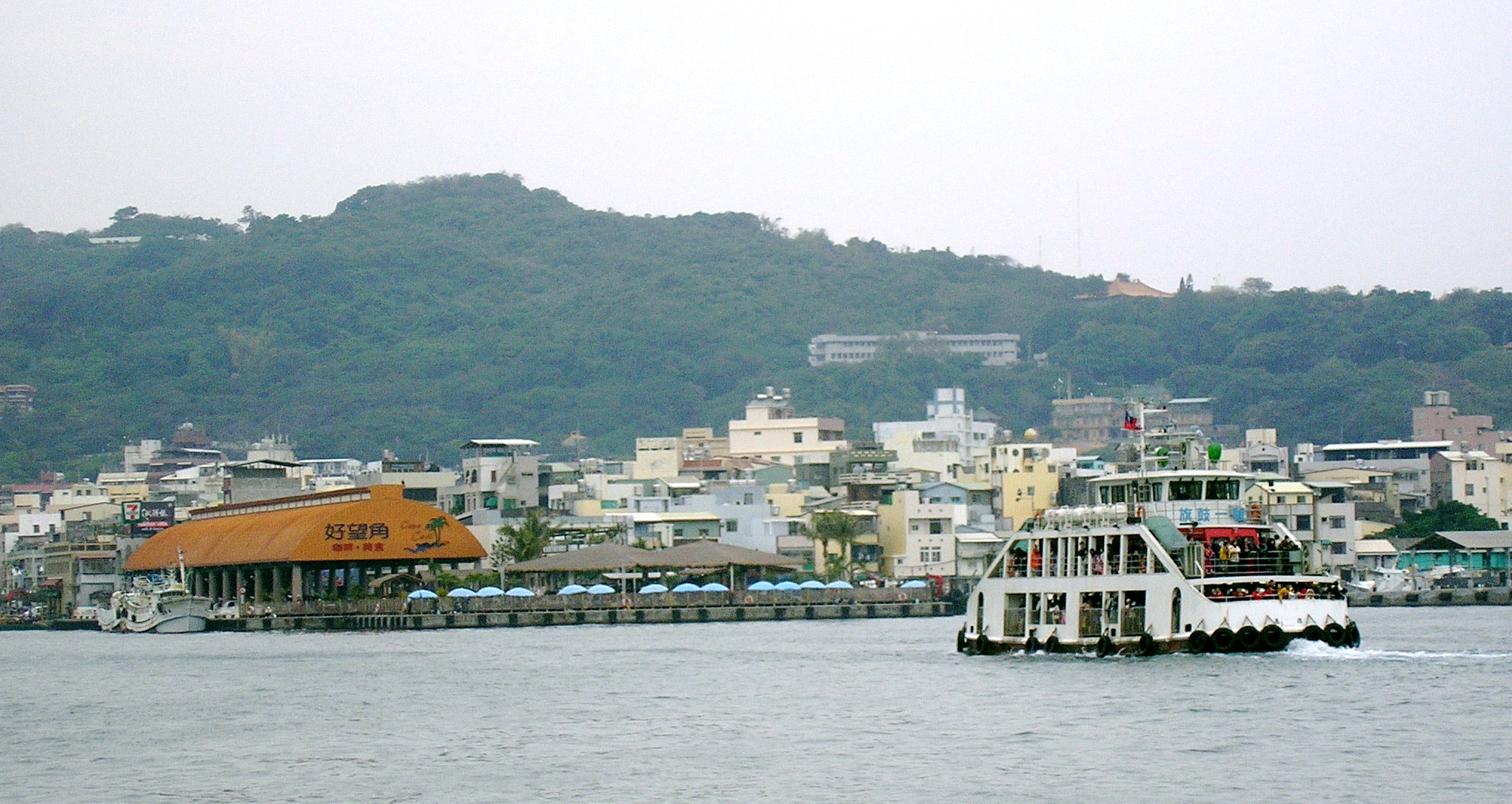 Cigu-1 Ferry to Gushan Ferry Pier, crossing Kaohsiung Harbor. Kaohsiung City, Taiwan.